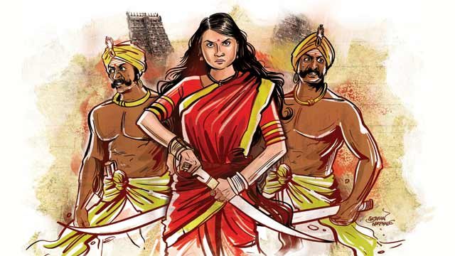 The queen of Sivagangai who won over British with the help of two other kings known as Marudhu brothers